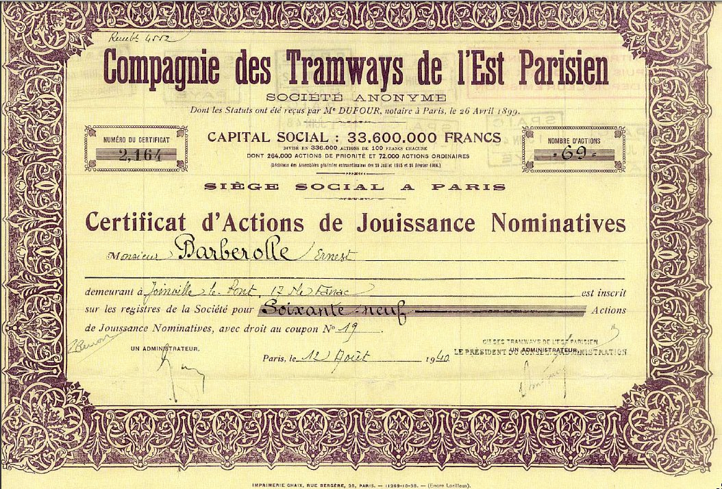 Shares certificate of the " Compagnie des tramways de l'Est parisien " (1899 – 1921)